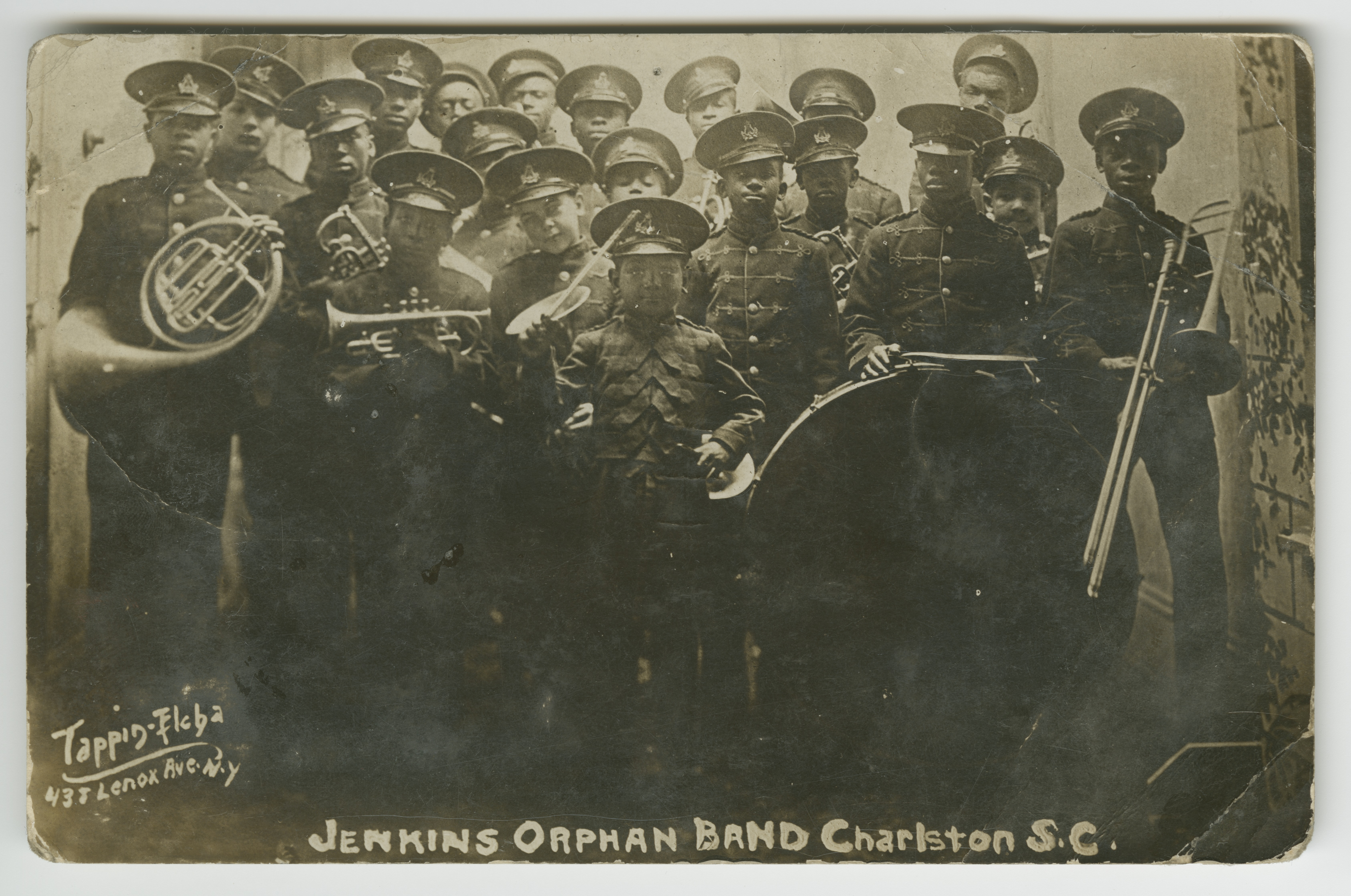 The photograph features twenty (20) boys and young men in uniform standing in rows, holding musical instruments including french horns, marching euphoniums, drums, and trombones. All of the band members are looking at the camera. At the bottom of the photograph is printed [JENKINS ORPHAN BAND Charleston S.C.]. At the lower left corner is the mark [Tappin-Elcha/ 438 Lenox Ave. N.Y] in white. The verso of the postcard is printed at the upper edge: [POST CARD/ CORRESPONDENCE [vertical line] ADDRESS ONLY].